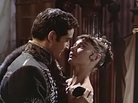 Cropped screenshot of Audrey Hepburn and Vittorio Gassman from the trailer for the film War and Peace.